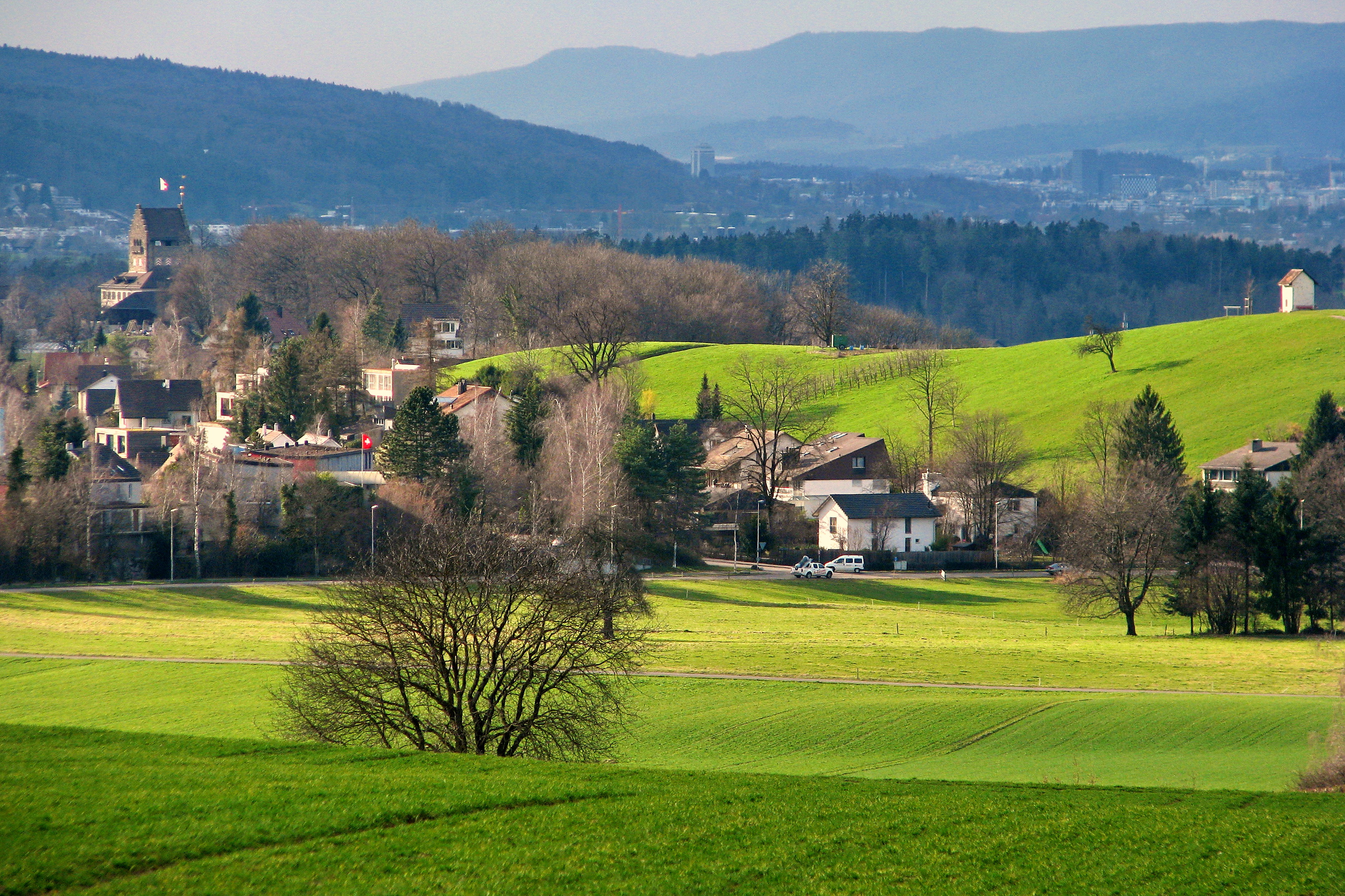 Uster (Switzerland) and its Schloss, as seen from Nossikon, Glatttal in the background.